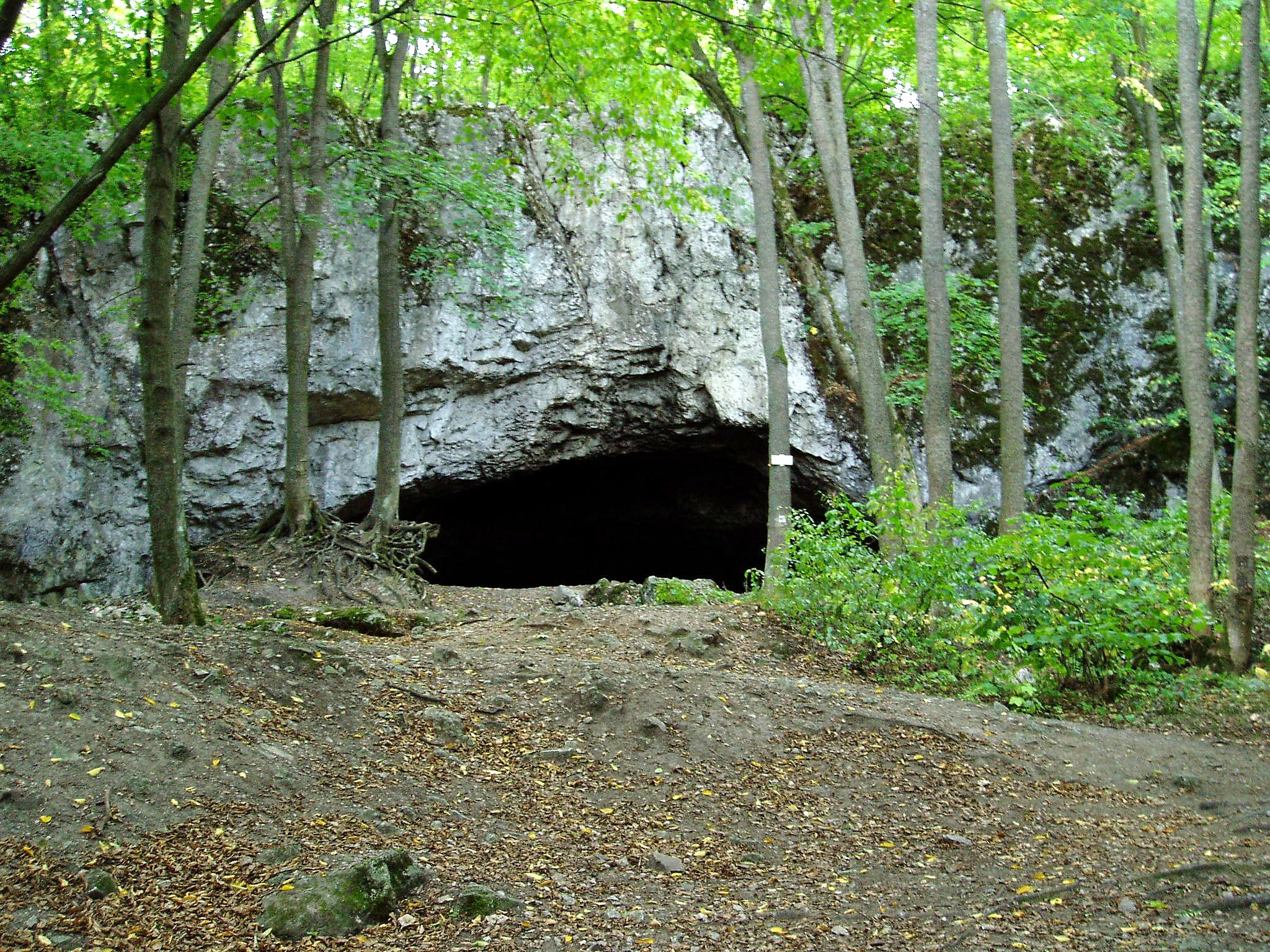 Entrance of the Pekárna Cave in Moravian Karst, Czech Republic.